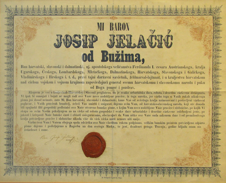 Ban Josip Jelačić's proclamation abolishing serfdom, Zagreb, April 25th 1848